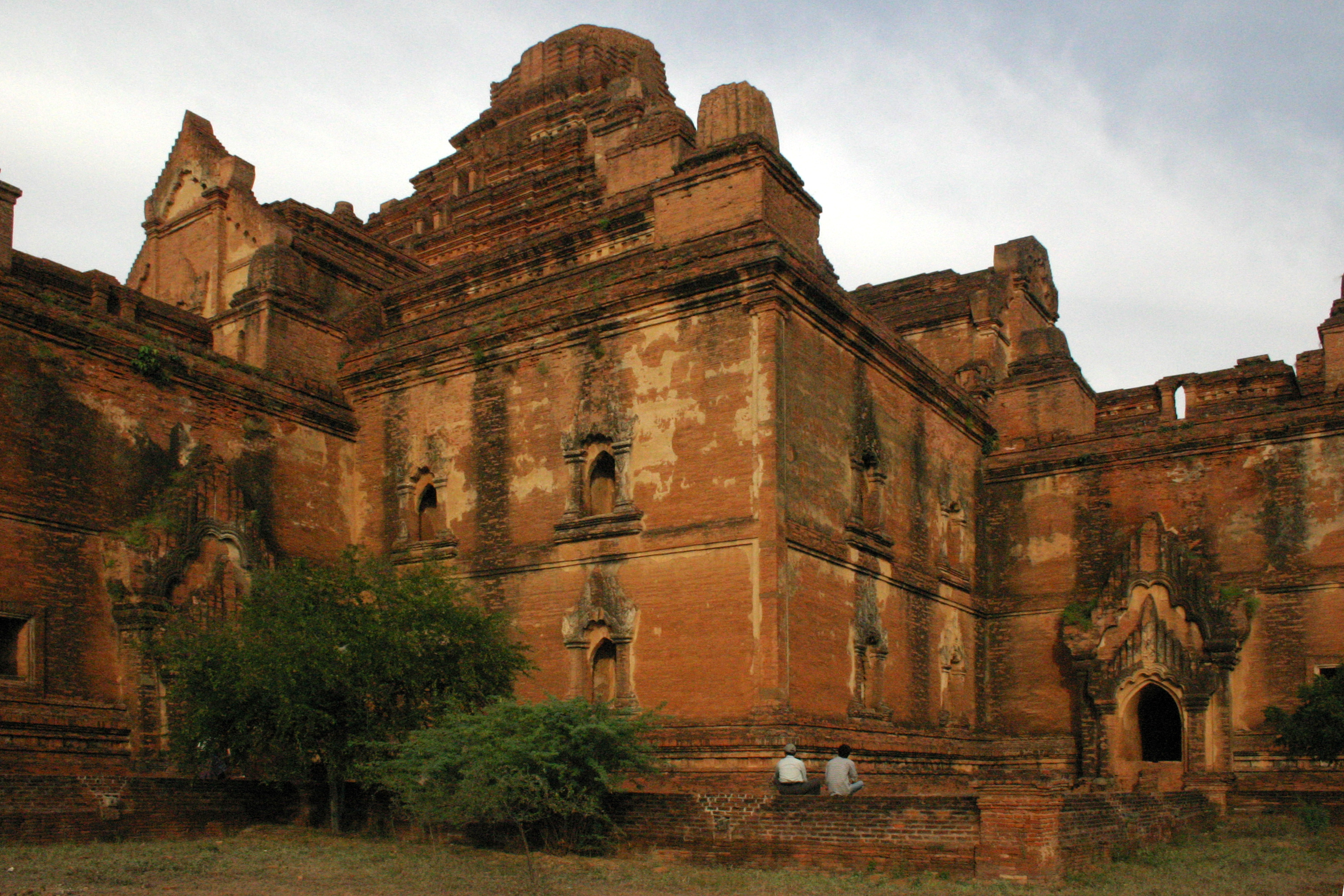 Dhammayangyi temple, Bagan, Myanmar.